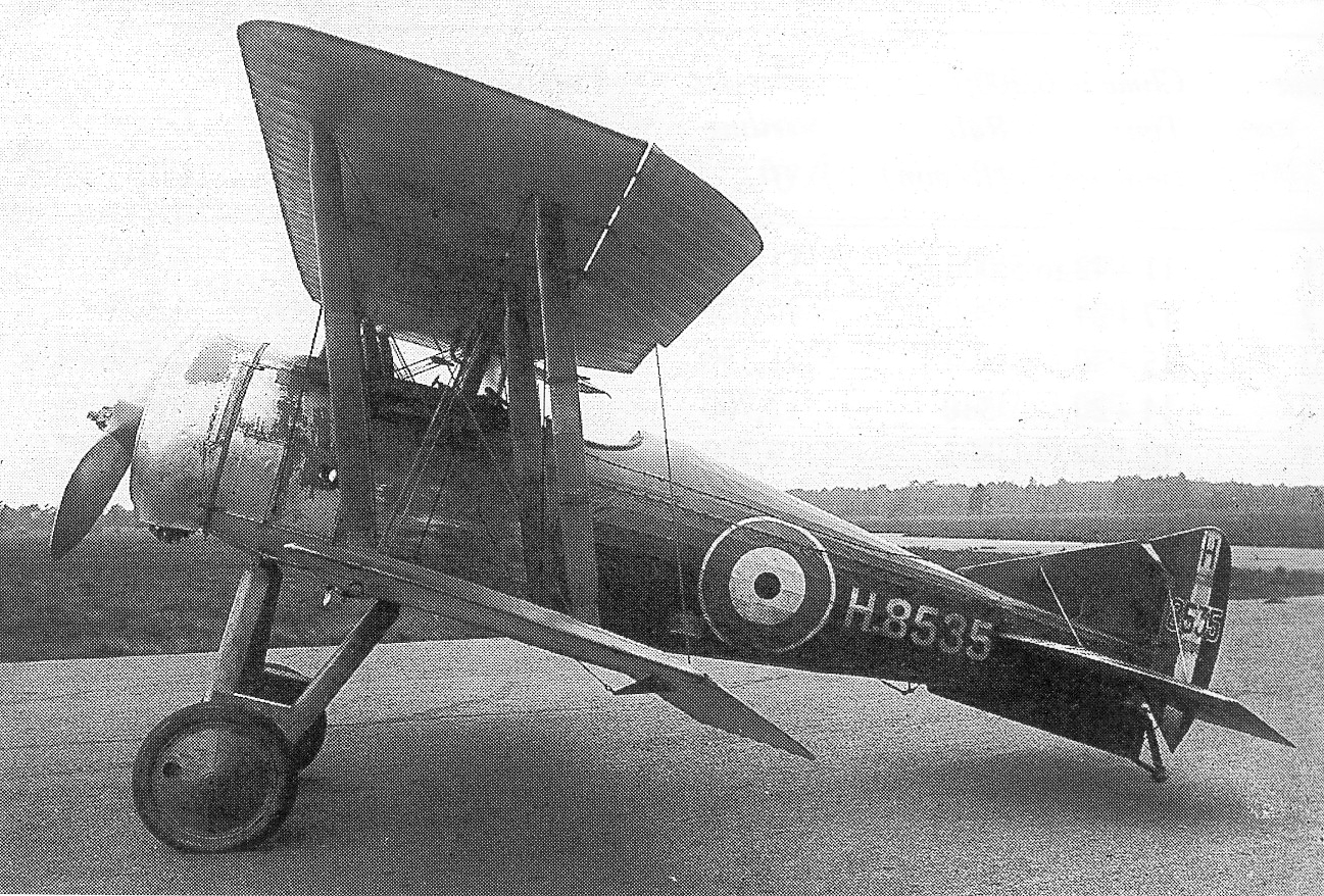 Gloster Nightjar prototype H8535 in May 1922.